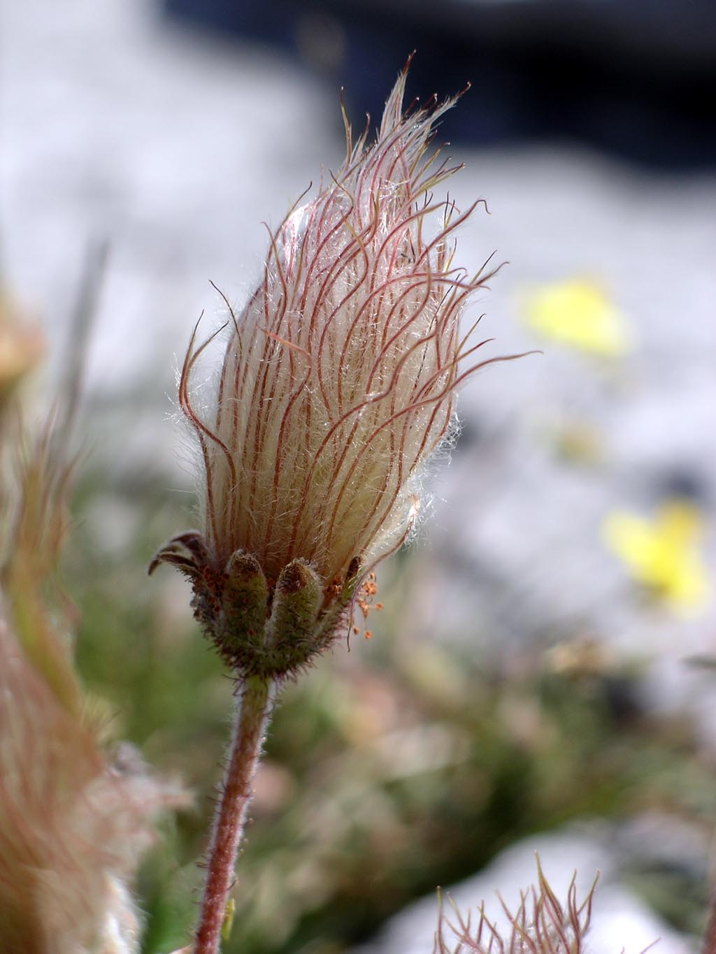 Seed head of Dryas octopetala on the Burren, County Clare